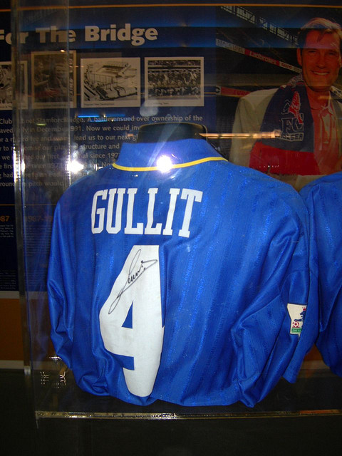 FC Chelsea jersey signed by Ruud Gullit